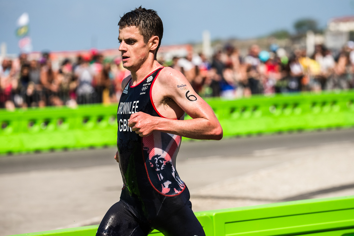 Triathlon at the 2016 Summer Olympics – Men's